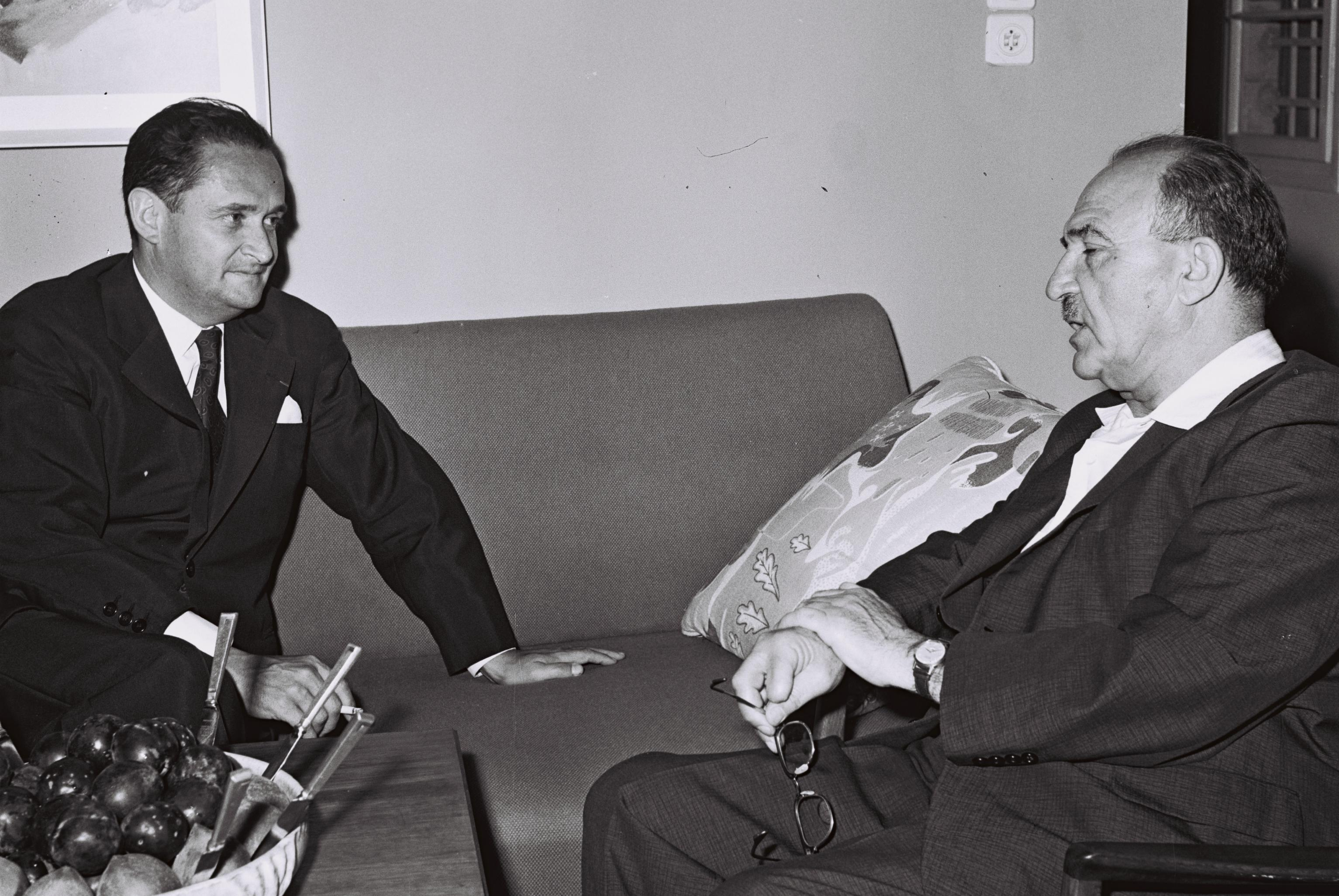 Maurice Bourgès-Maunoury meeting Finance Minister Levi Eshkol during a visit to Israel